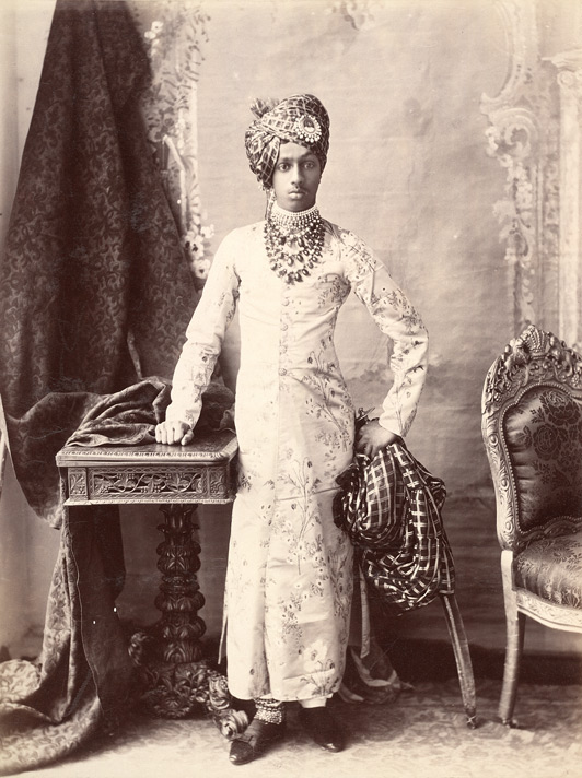 Studio portrait photograph of the Maharaja of Jodhpur Sardar Singh, taken by Bourne & Shepherd in 1896, from the Elgin Collection: 'Autumn Tour 1896'.